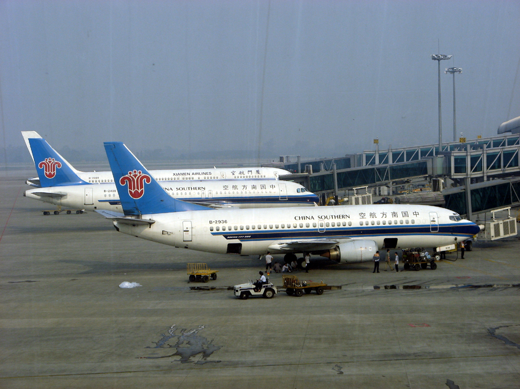 Planes at Guangzhou Baiyun International Airport China Southern Airlines Boeing 737-300 (B-2936) China Southern Airlines Airbus A320 (B-2408) Photo by Dice 2006.06.21